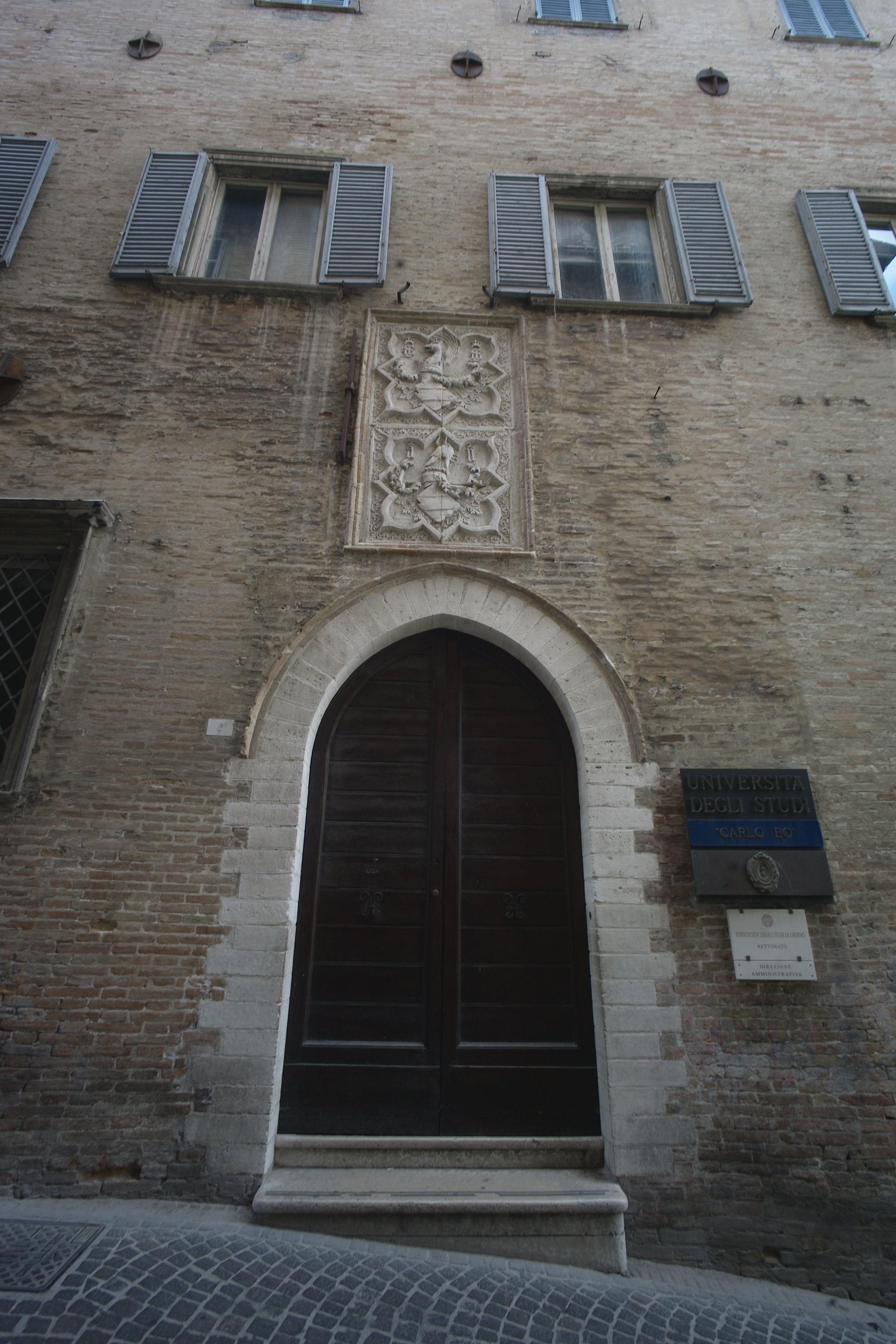 Bonaventura Palace, seat of the University of Urbino